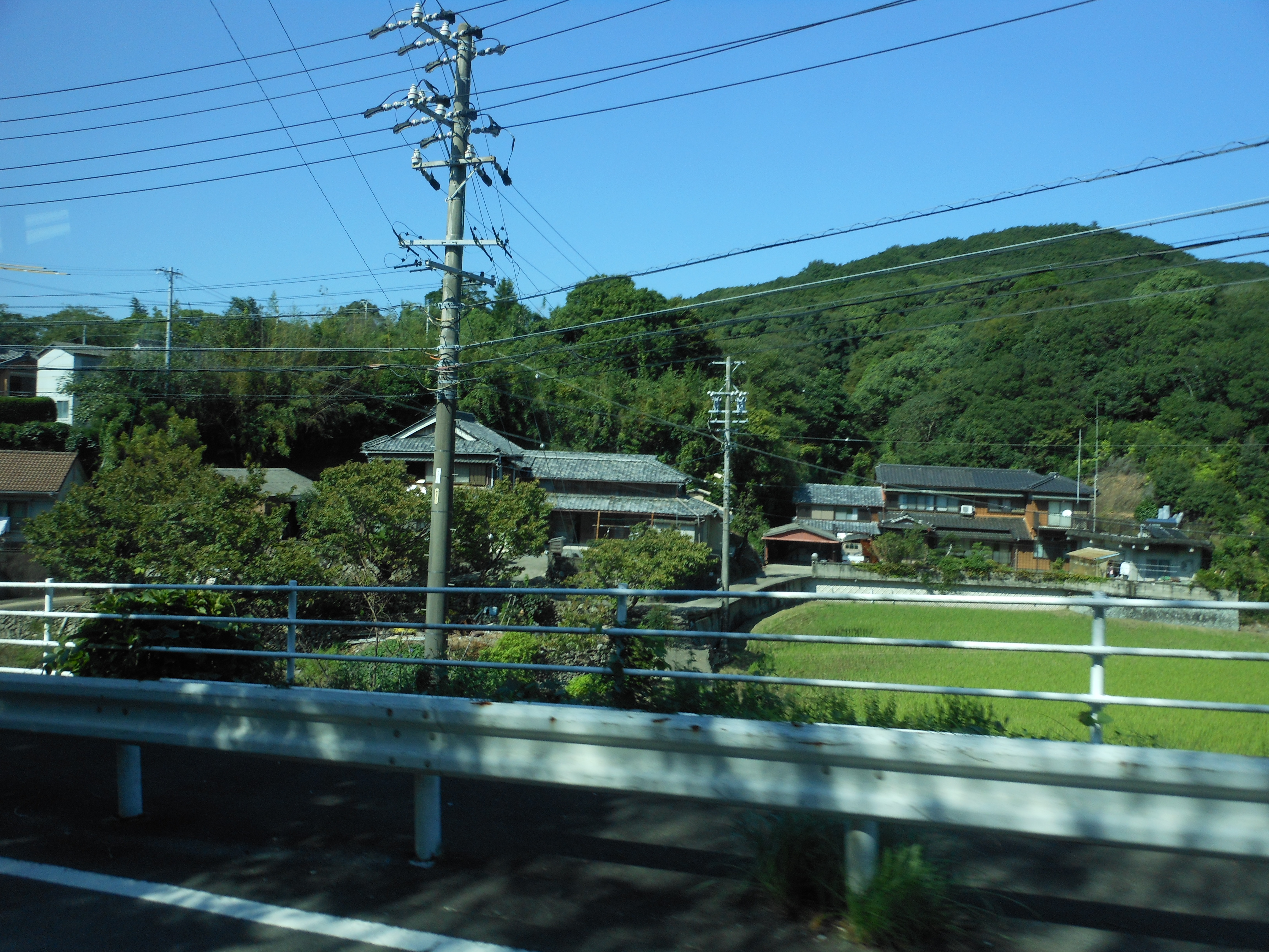 This is a landscape of Hamajimacho-Shioya, Shima city, Mie prefecture, Japan.